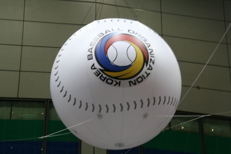 Korean Baseball Organization